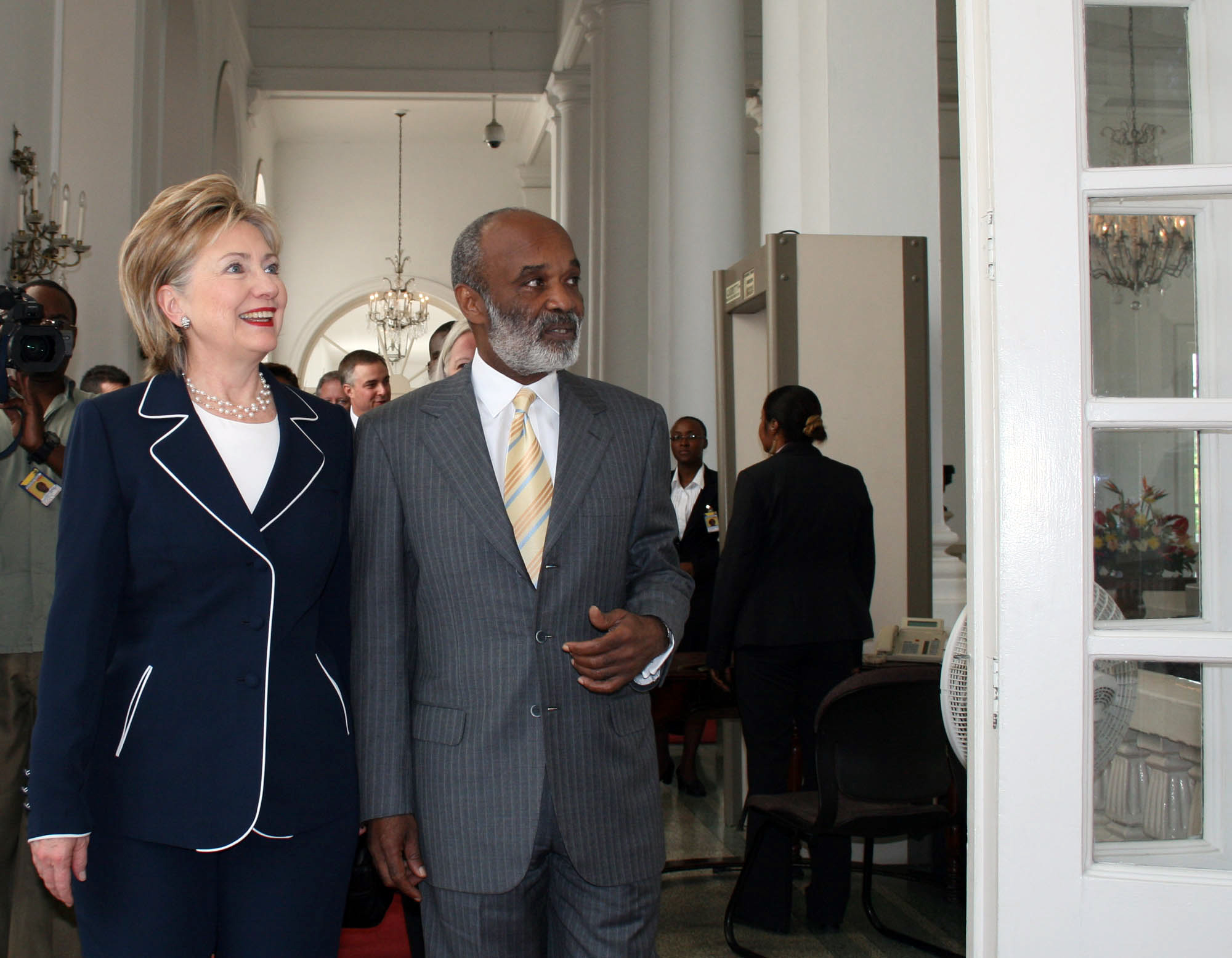 U.S. Secretary of State Hillary Rodham Clinton and President of the Republic of Haiti, Rene Preval enter the President’s private office at the National Palace in Port-au-Prince for a meeting before the press conference in Port-au-Prince, Haiti April 16, 2009.